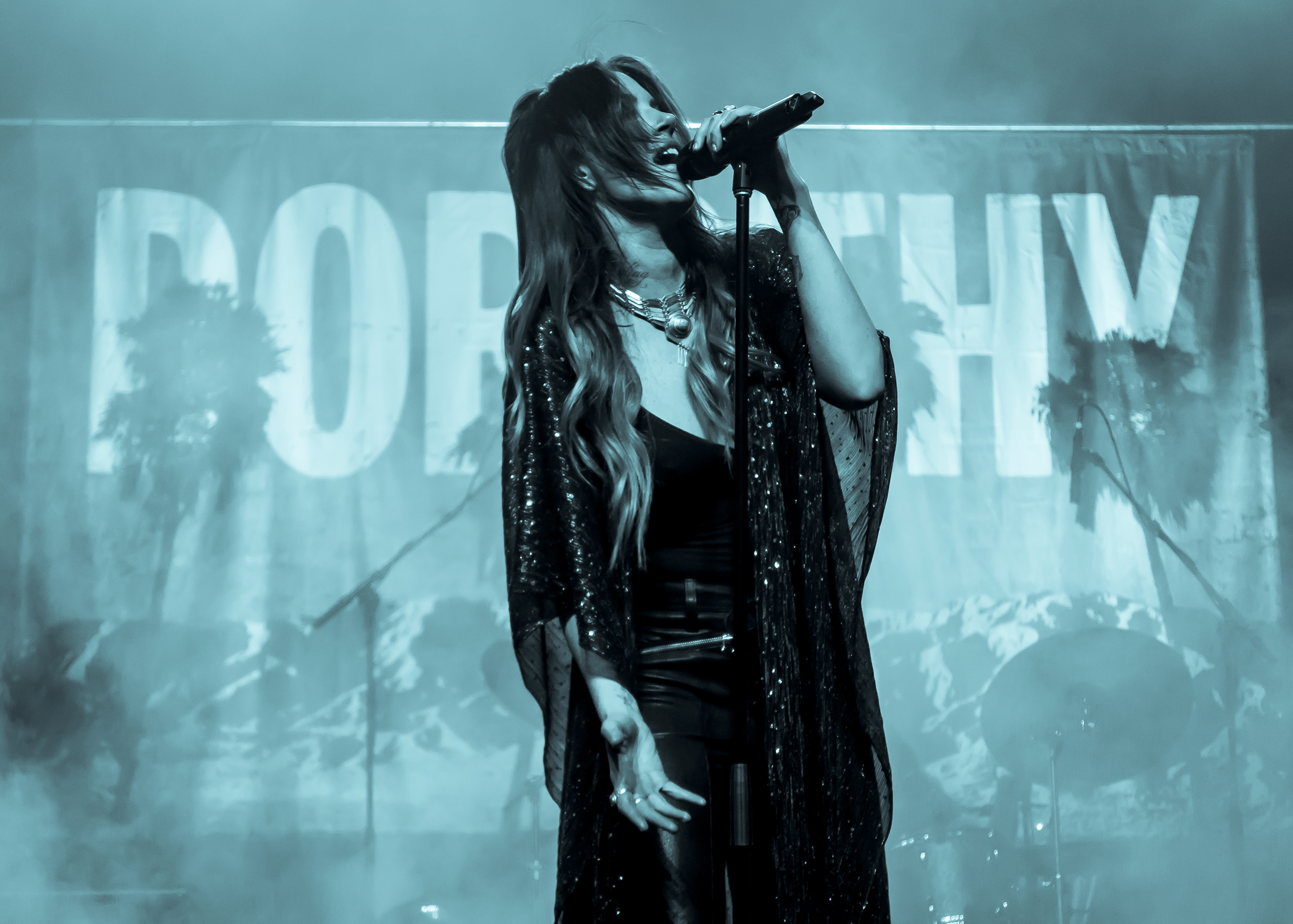 Dorothy performing live at the Fonda Theatre in Los Angeles, California, on Friday, February 16, 2018.